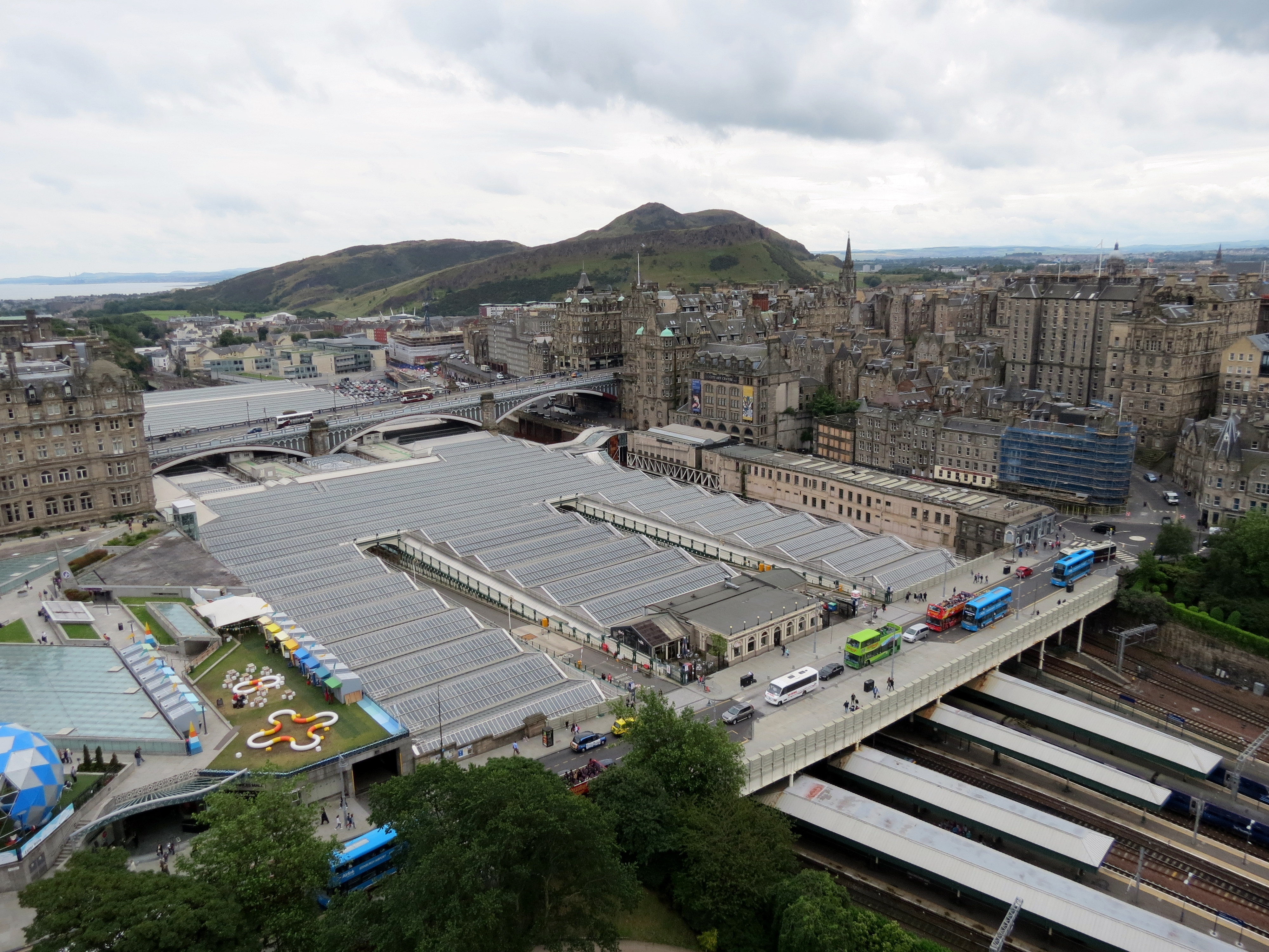 Edinburgh Waverley railway station roof taken from the Scott Monument.